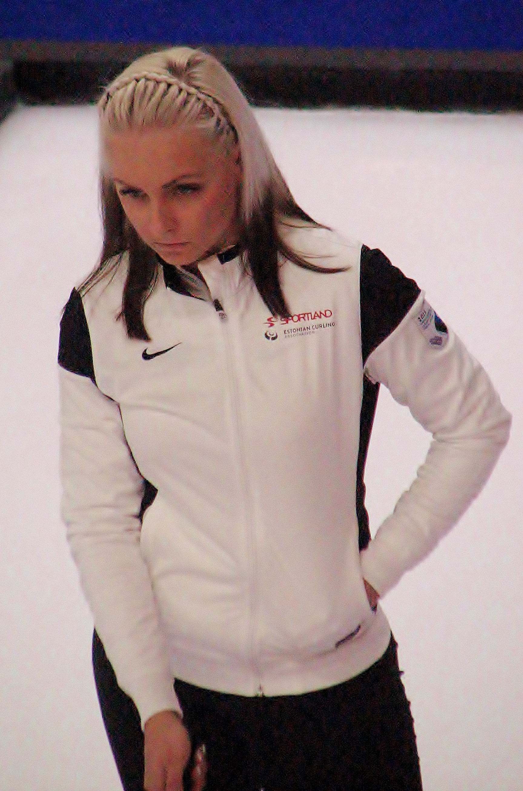 Marie Turmann in 2015 World Junior Curling Championships